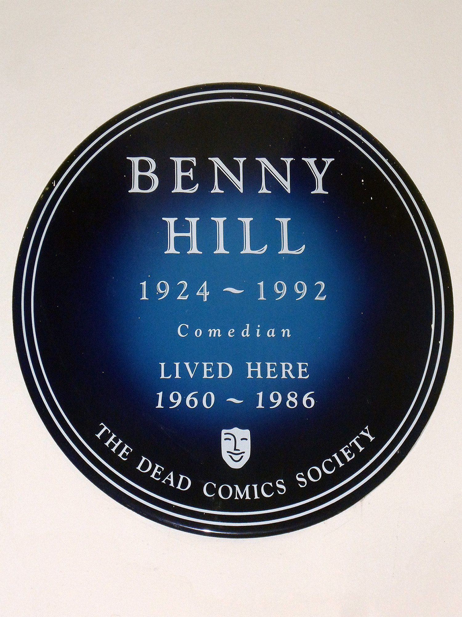 Blue plaque erected by the Dead Comics Society at 1 and 2 Queen's Gate, Kensington, London SW7 5EH